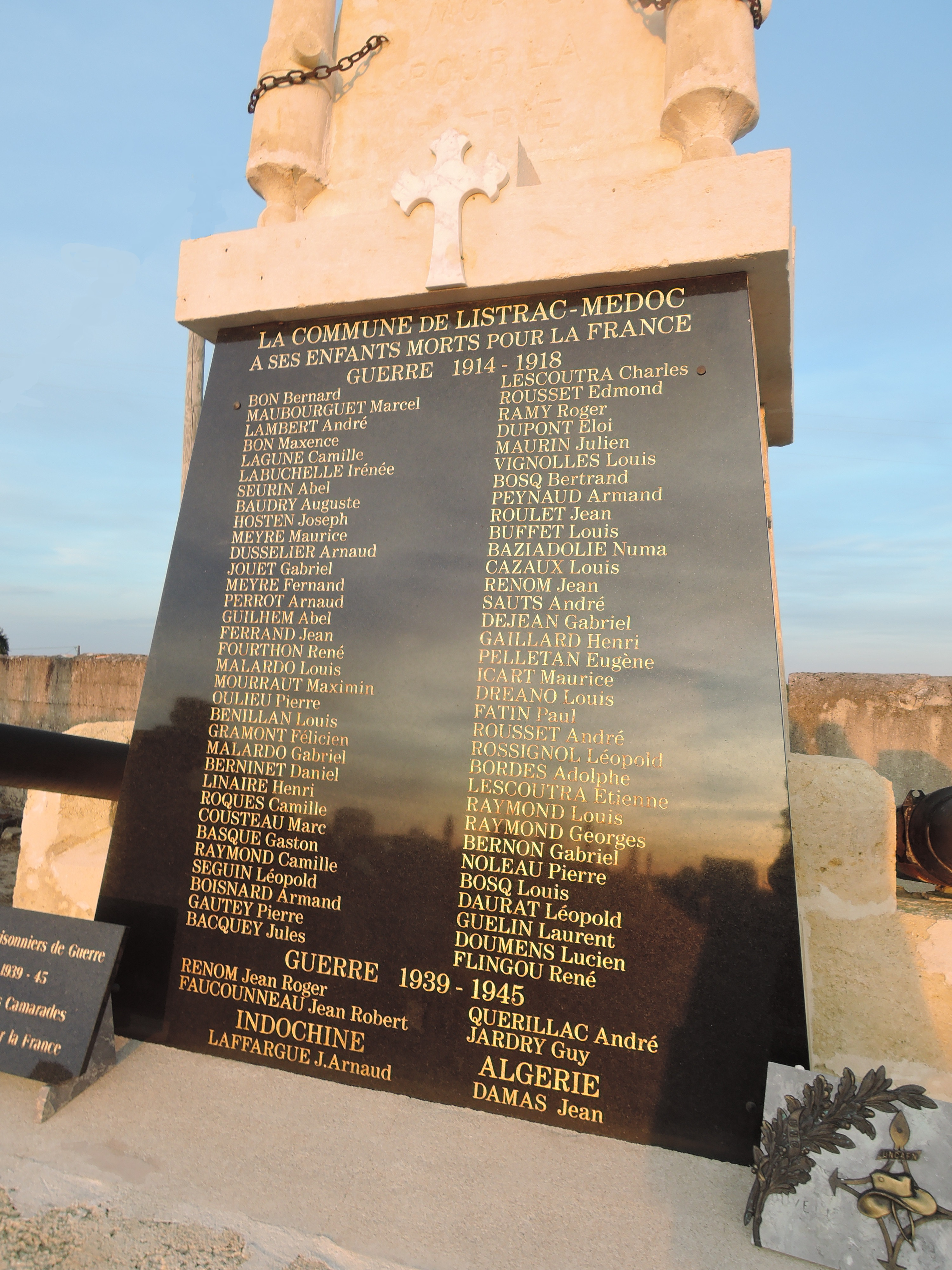 War memorial in the cemetery of Listrac-Médoc, Gironde, France. Concerns first and second world wars, Indochina war and Algeria war.